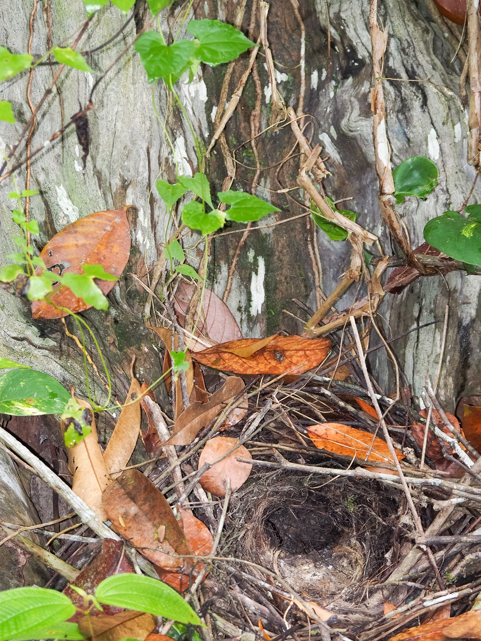 Nest of a Hooded pitta pair at Sepilok Jungle Resort in northern Sabah, Borneo, Malaysia. The young had already fledged, leaving one unhatched egg.